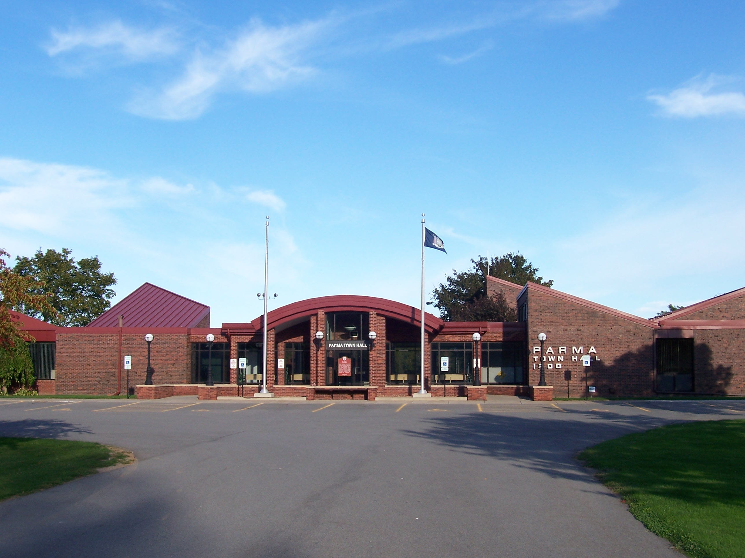 Parma, New York town hall